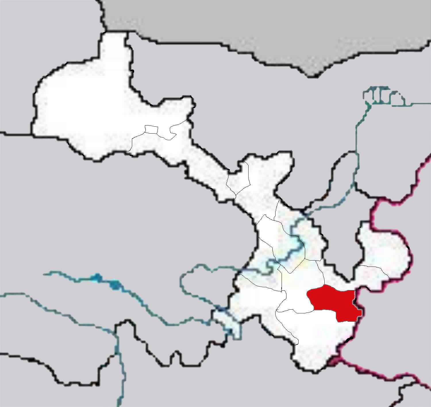 maps of Gansu Province of China